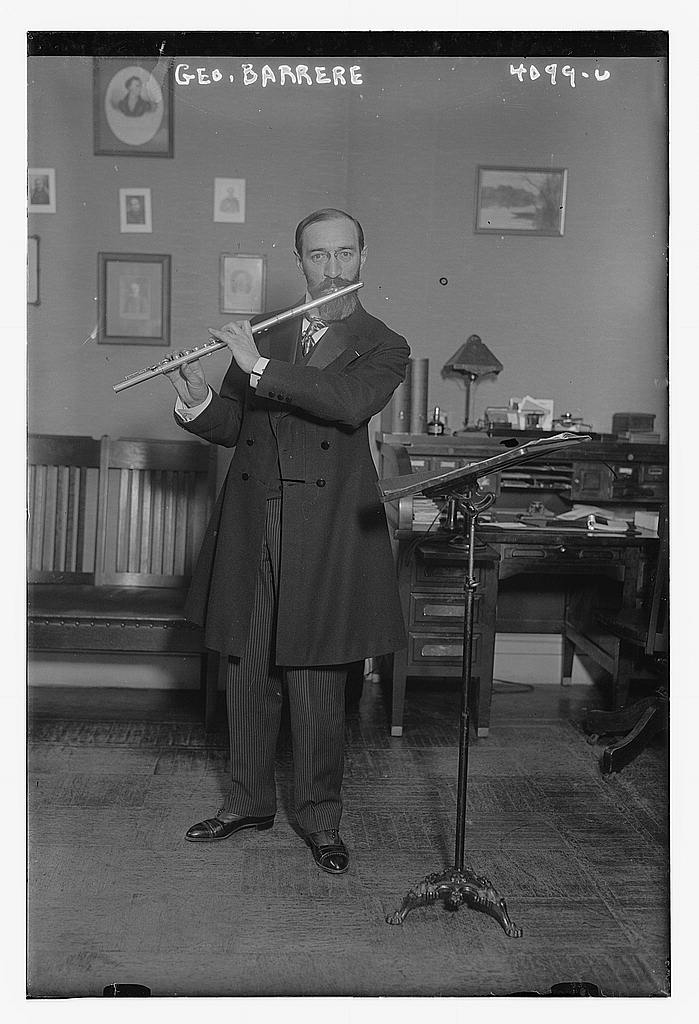 Georges Barrère